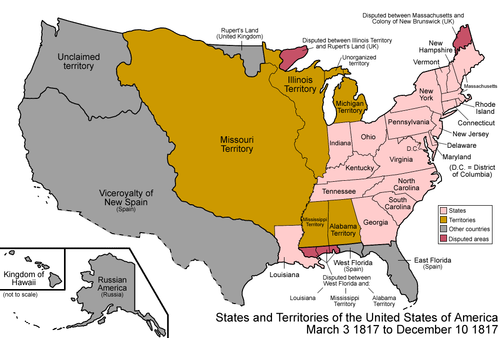 Map of the states and territories of the United States as it was from March 1817 to December 1817. On March 3 1817, Alabama Territory was split from Mississppi Territory. On December 10 1817, Mississippi Territory was admitted as the state of Mississippi.